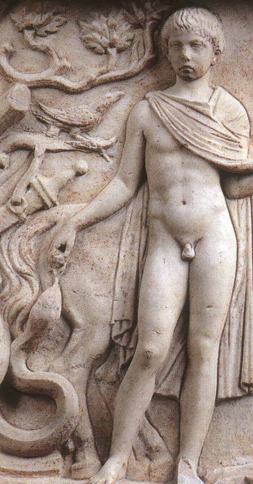 Detail from a votive relief, Pentelic marble, 2nd c. C.E. Polydeukes/Polydeukion was the favorite pupil and beloved of stoic philosopher and millionaire philanthropist Herodes Atticus. He died while still a youth, and his mentor organized a cult in his honor, analogous to that devised by Hadrian for Antinous. Here he is shown with heroic attributes: the serpent, and his nudity. National Archeological Museum, Athens, Nr 1450.